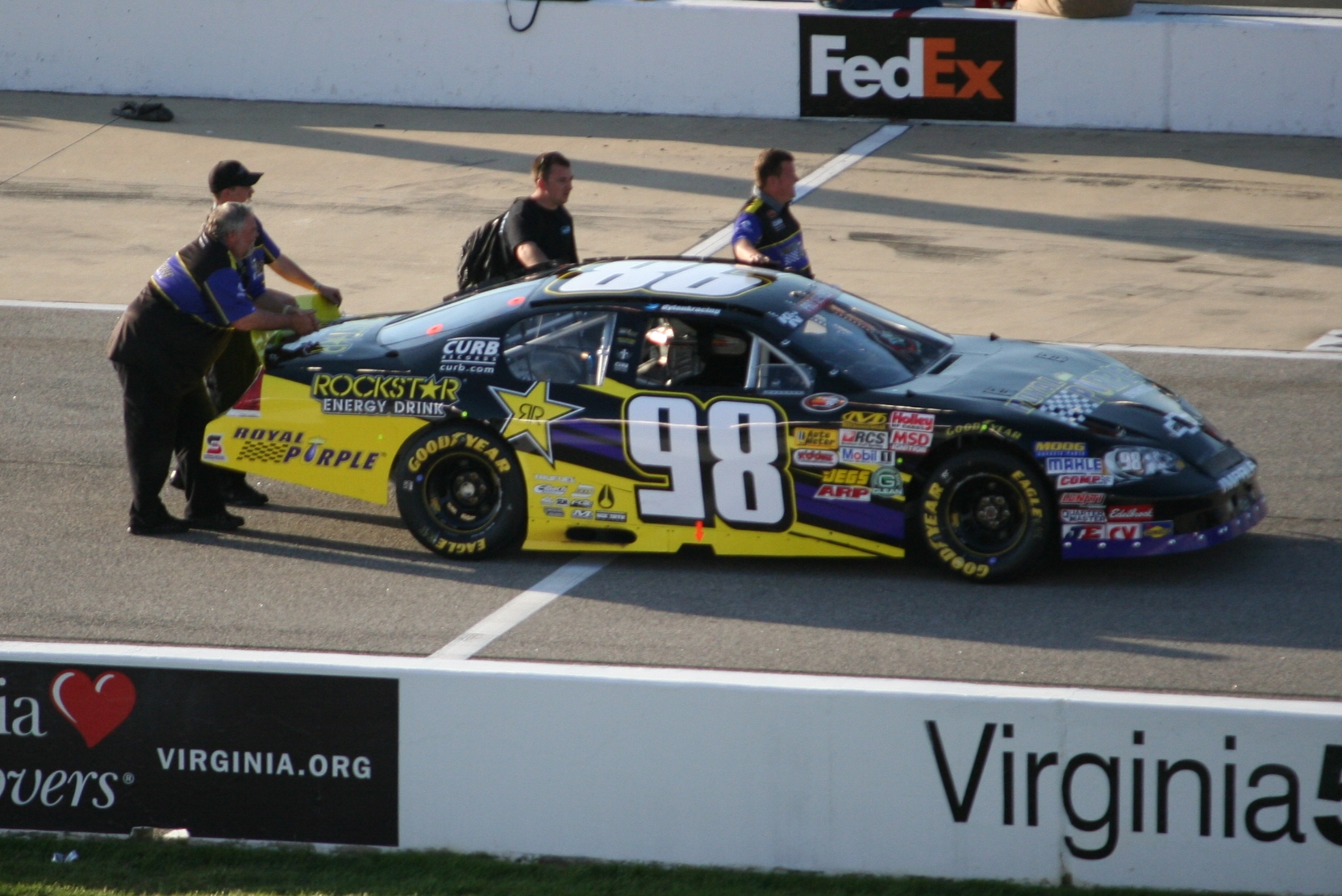 Dylan Kwasniewski's No. 98 Chverolet is pushed on pit road at Richmond International Raceway before the NASCAR K&N Pro Series East Blue Ox 100, April 25 2013.